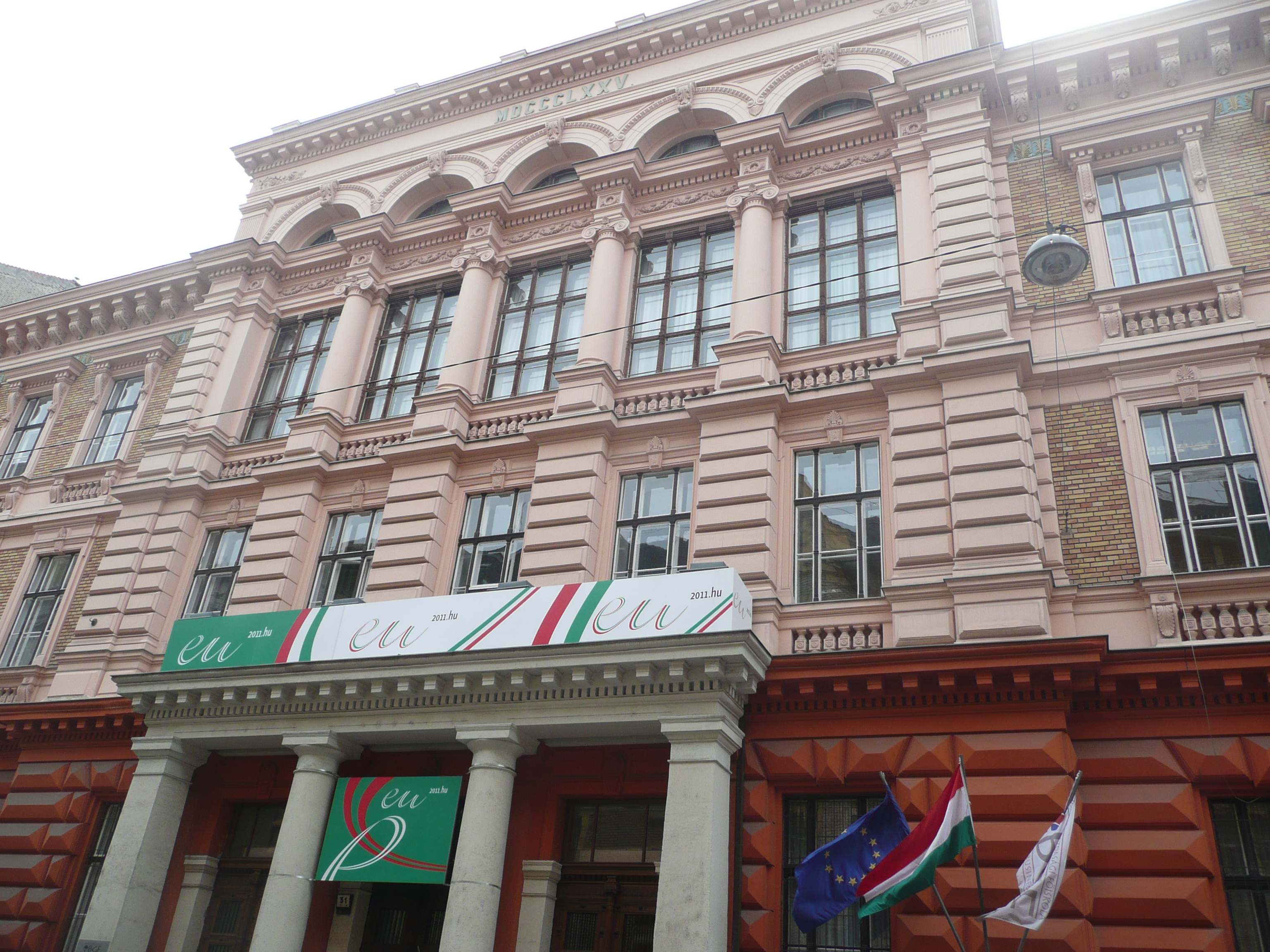 BBS building. College of Commerce, Catering and Tourism, Budapest.at the Markó utca